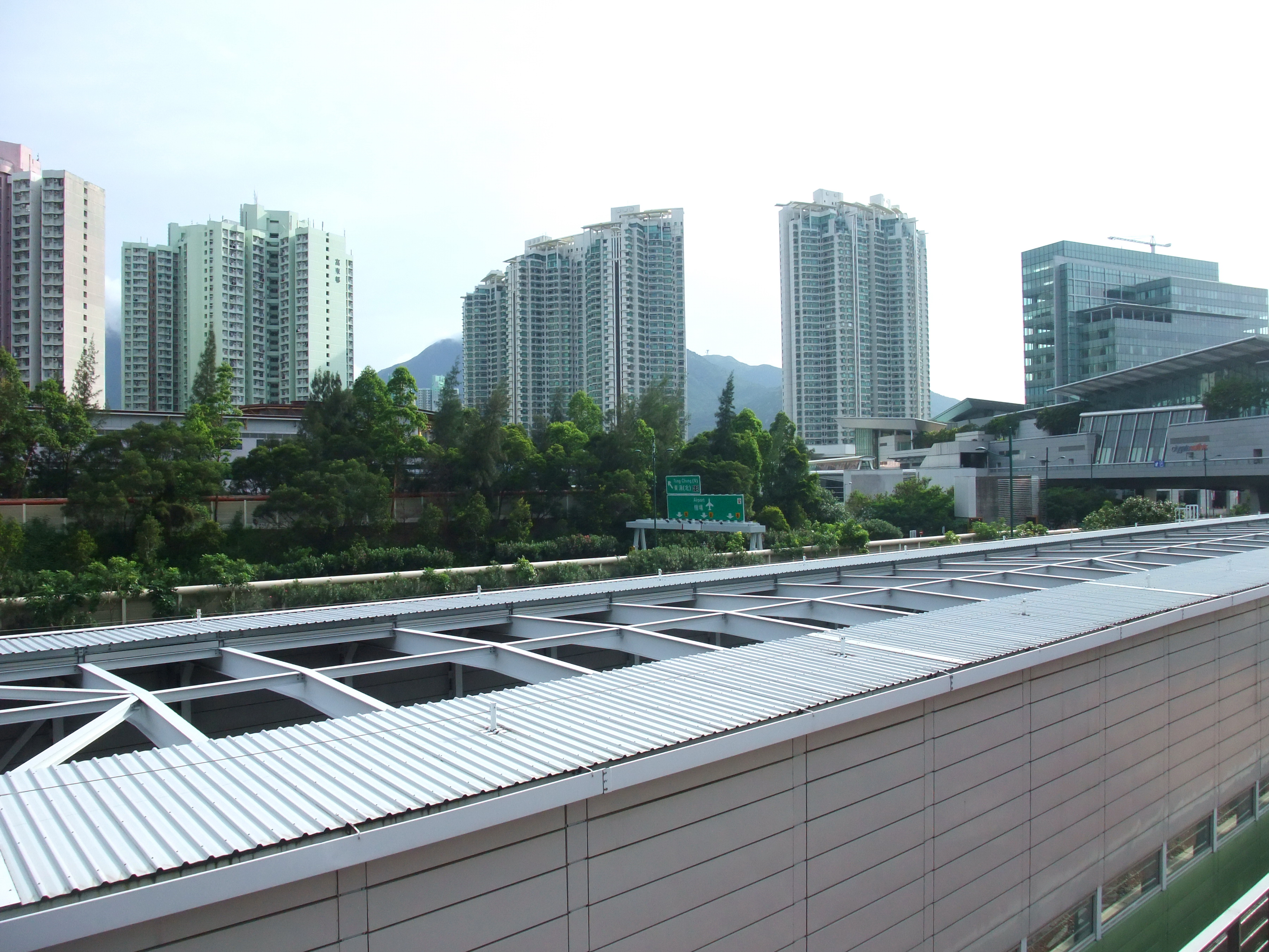 A section of the acoustic barrier of MTR located south of the Tung Chung Municipal Services Building, Tung Chung, Hong Kong.